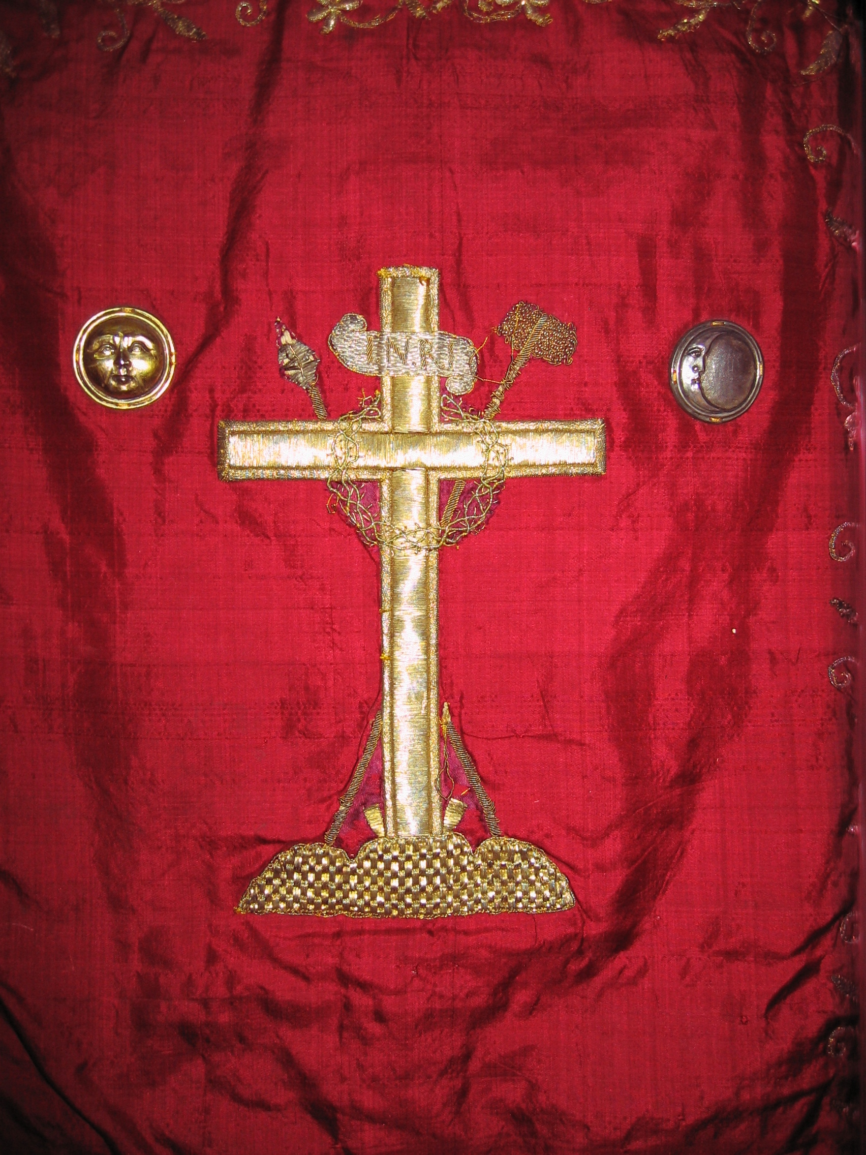 Holy Cross Brotherhood Taranto